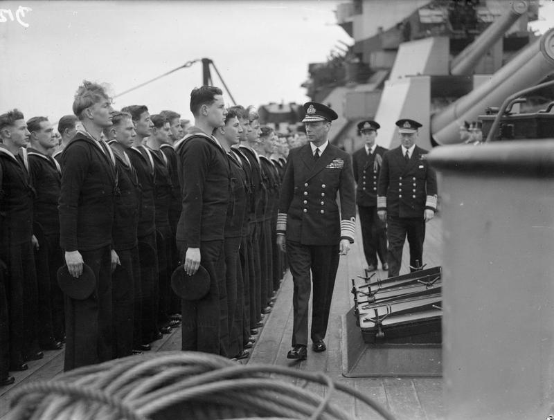 The King Pays 4-day Visit To the Home Fleet. 18 To 21 March 1943, at Scapa Flow, the King, Wearing the Uniform of An Admiral of the Fleet, Paid a 4-day Visit To the Home Fleet. The King inspecting some of the ship's company on the battleship HMS HOWE.